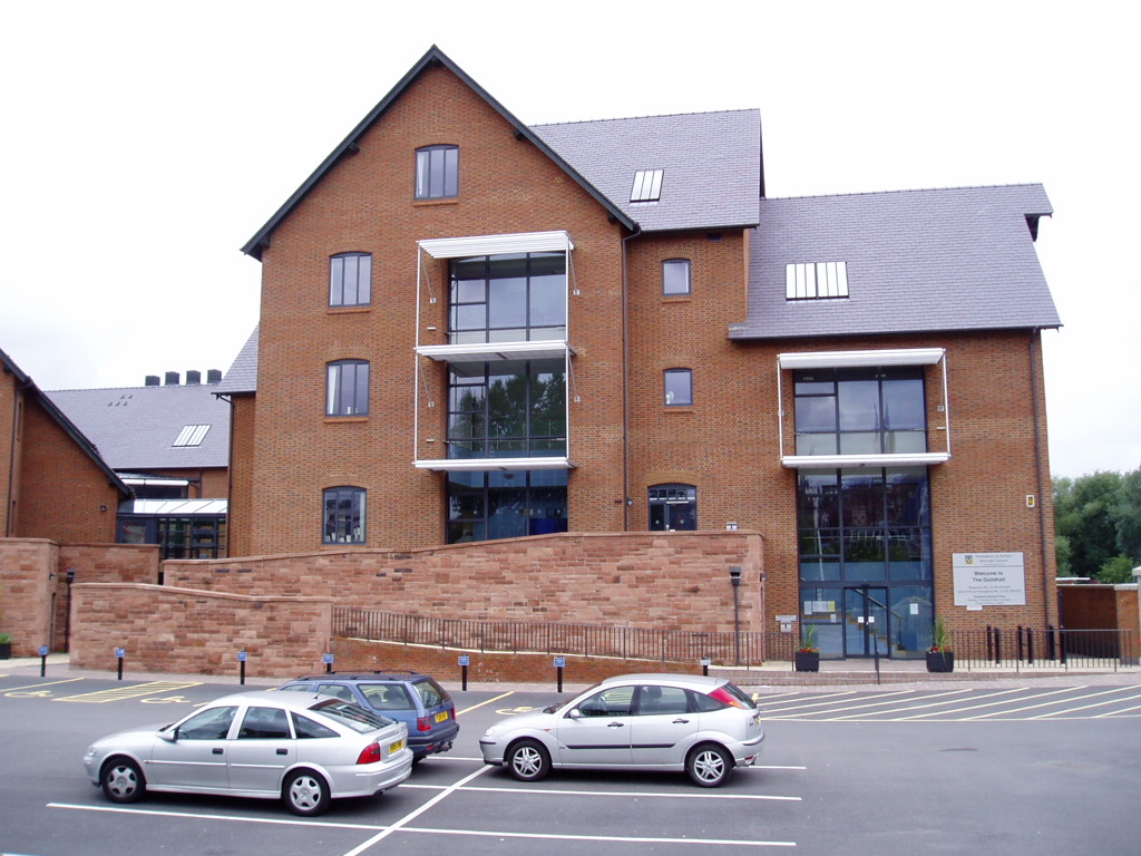 Shrewsbury's Guildhall, Frankwell. Built 2002-2003.